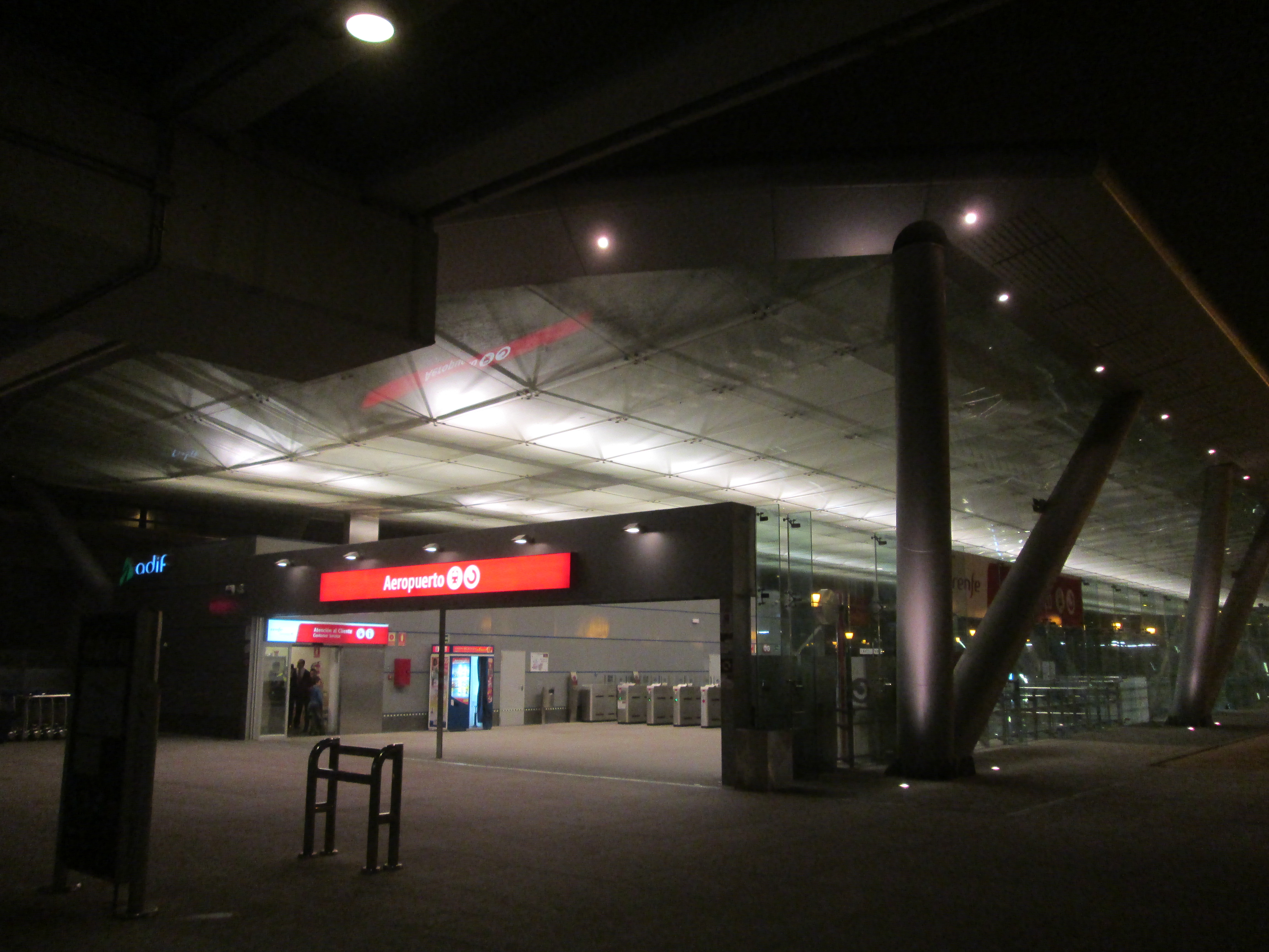 Estación de Aeropuerto, Cercanías Málaga.